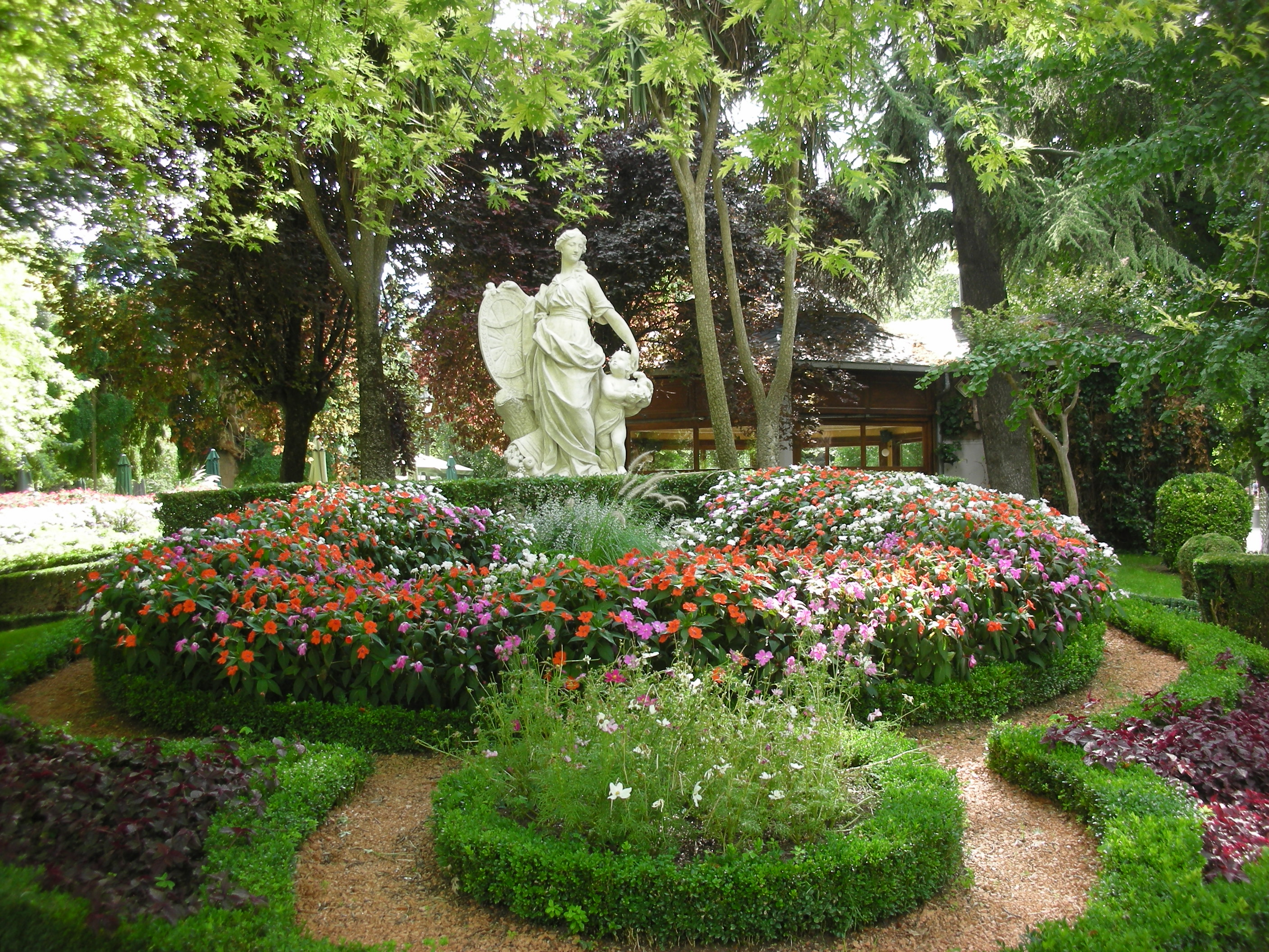 Mariblanca statue at Taconera gardens in Pamplona